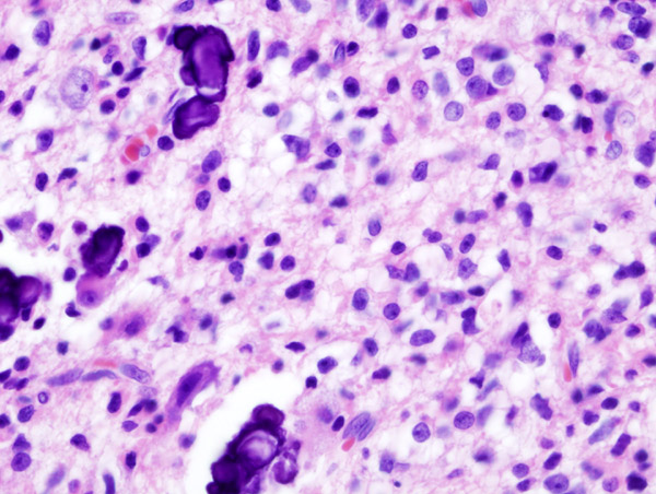 Histopathological image of anaplastic oligodendroglioma in cerebrum. Another view of the same case in a file "Anaplastic_oligodendroglioma_(1).jpg". Hematoxylin & eosin stain.